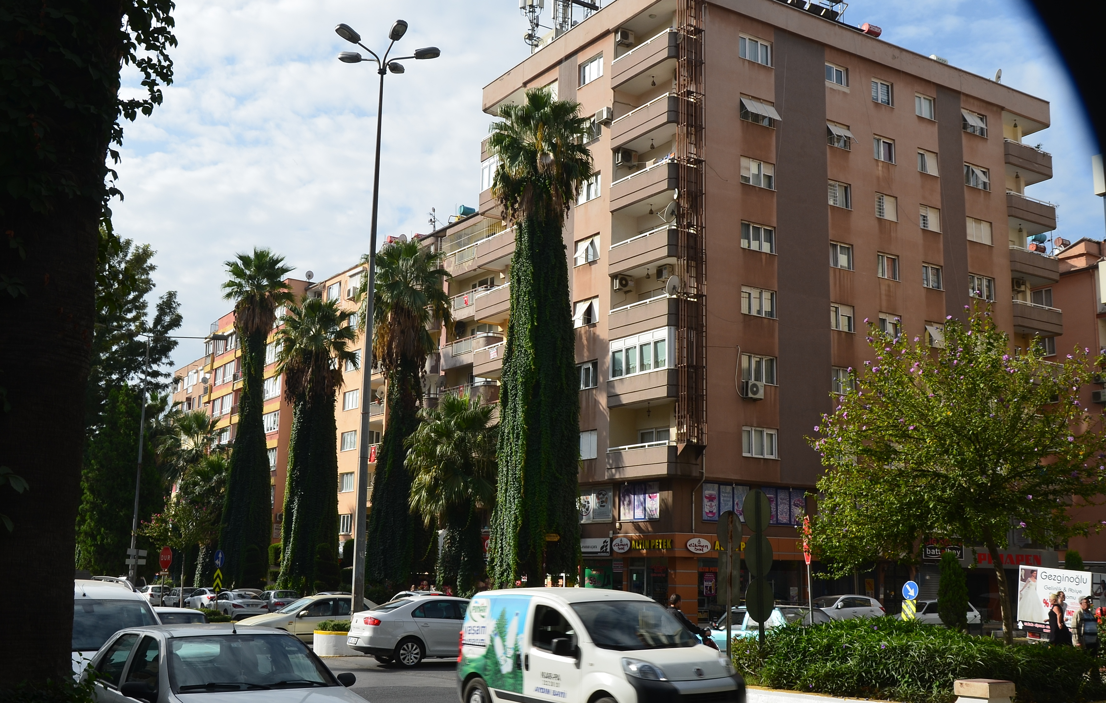 Sreet view in Aydın, Turkey